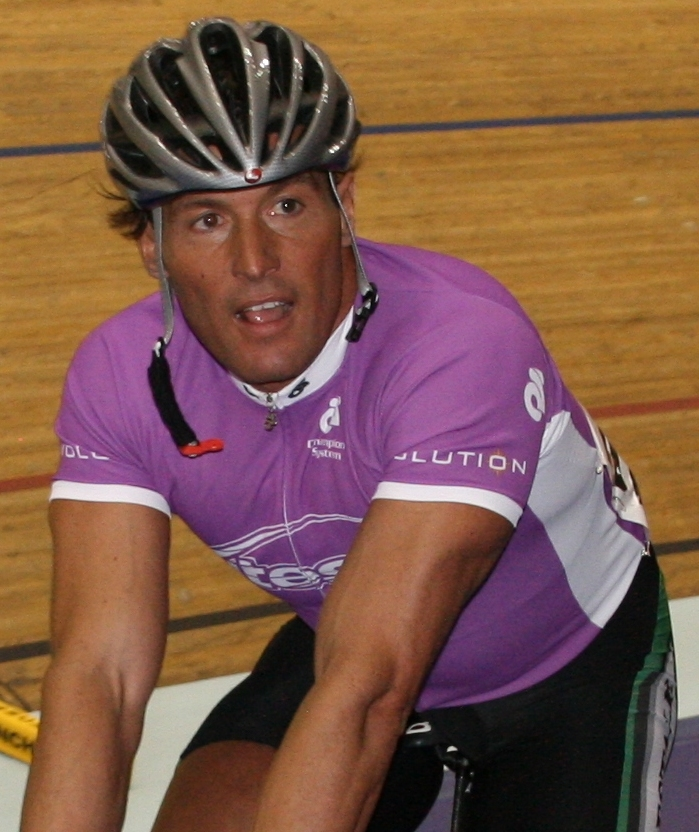 Roberto Chiappa at Revolution 25, Manchester Velodrome, UK.